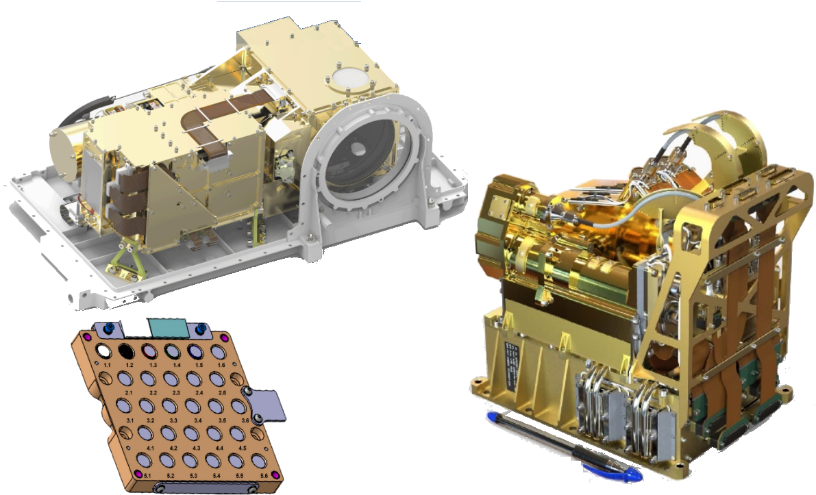 NASA Mars 2020 rover: Supercam-diagram